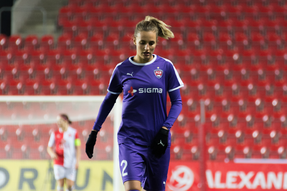 Nathalie Björn vs Slavia Praha on 1 November 2018